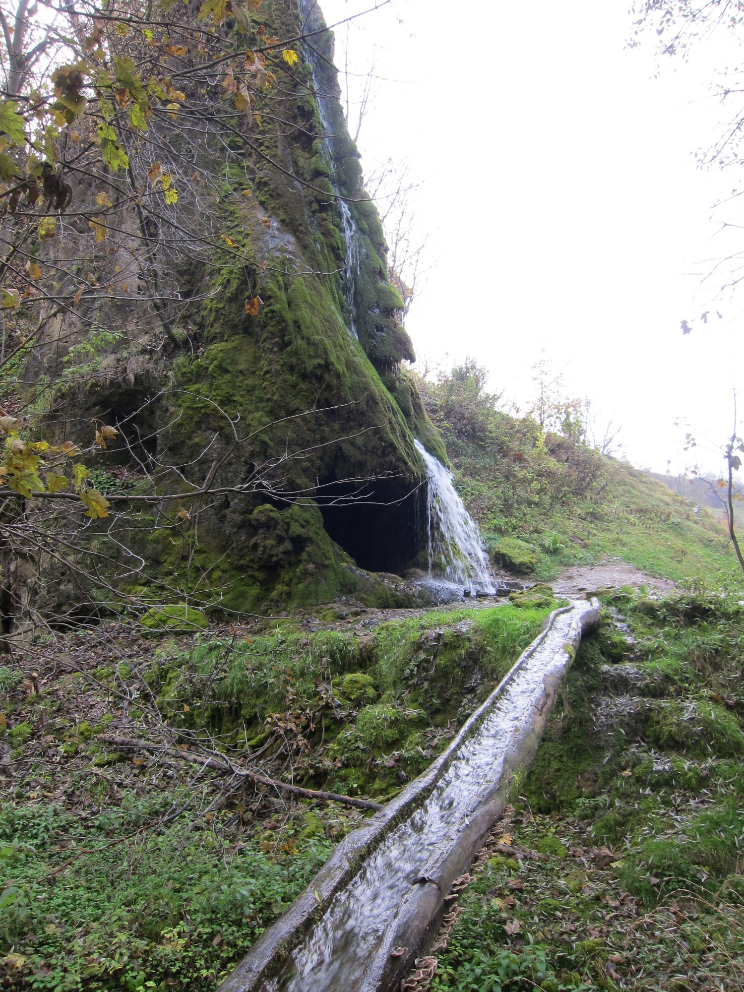 Maliivetskyi park (Khmelnytsky Oblast, Ukraine)